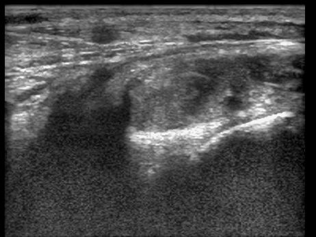 Medical ultrasound image. Provided as-is. Please feel free to categorise, add description, crop.